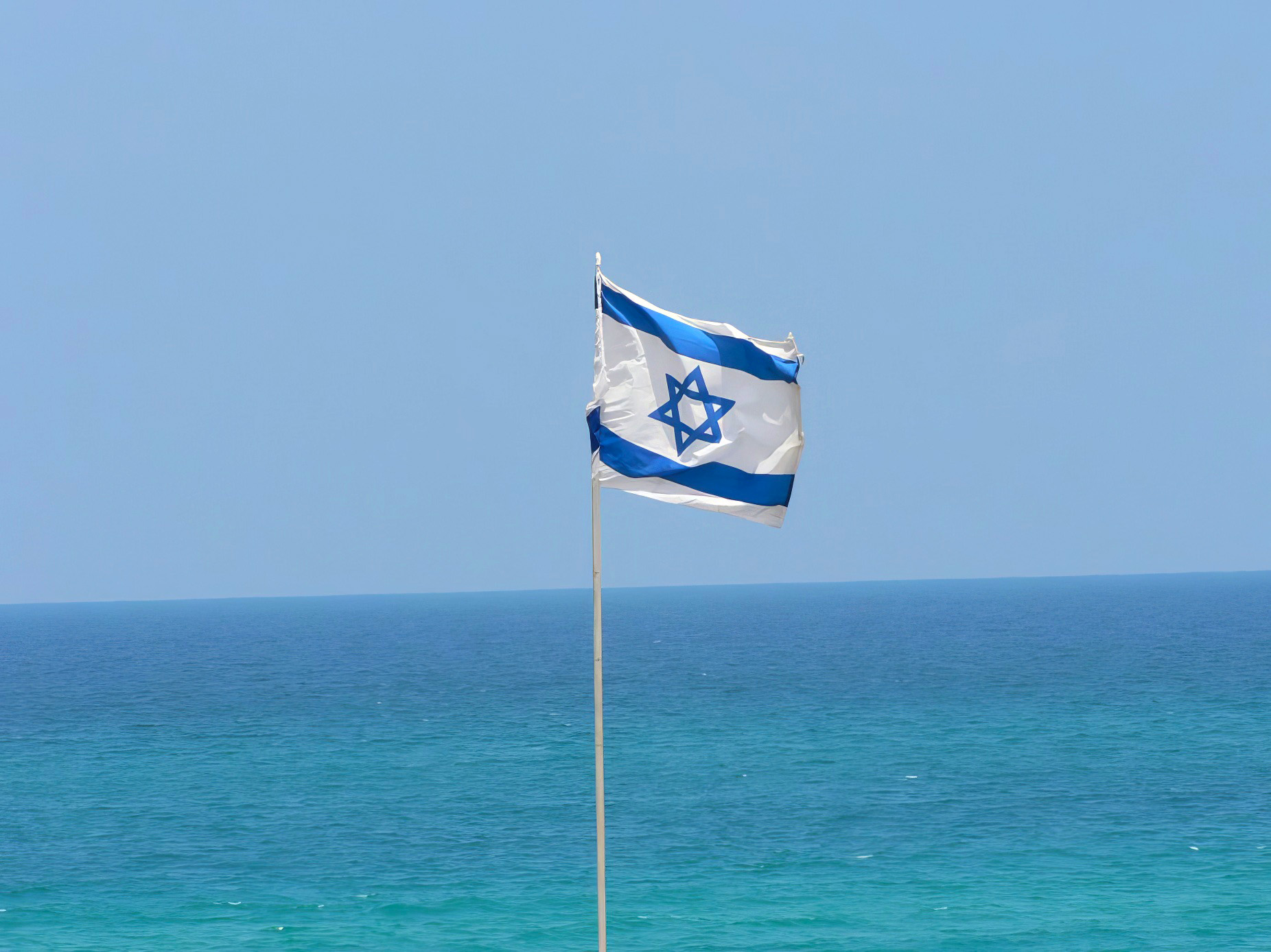 Flag of Israel with the Mediterranean sea in the background.